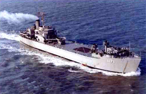 USS De Soto County (LST-1171) underway in the Caribbean Sea, circa 1958. Official US Navy photo taken from